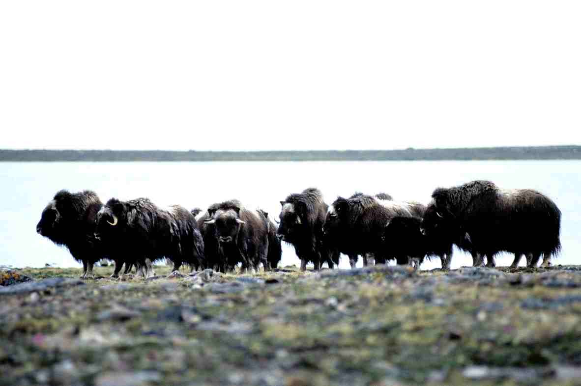 Muskoxen on Victoria Island, Nunavut Territory, Canada